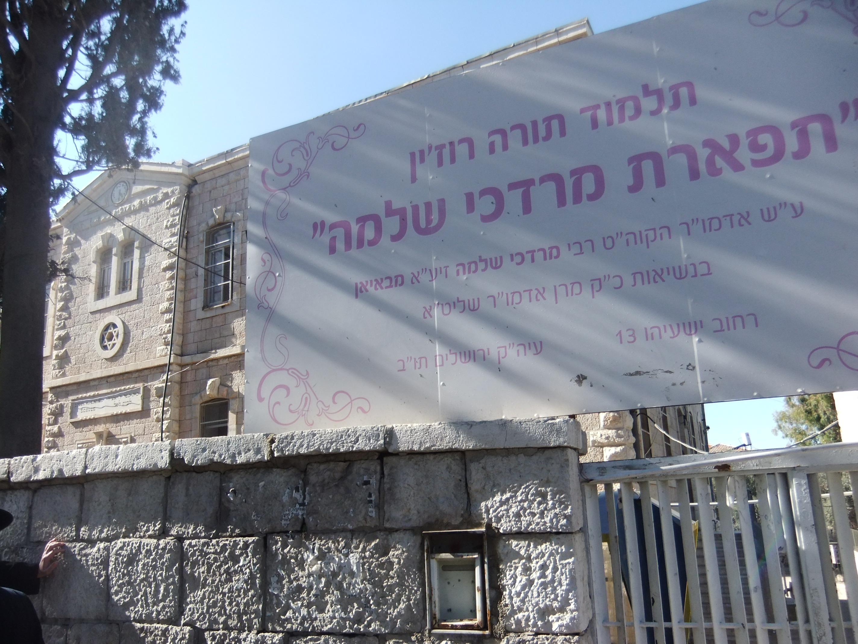 Lemel School in Jerusalem, Yeshayahu street (corner of David Yellin street) with the sign of the current use of the building.